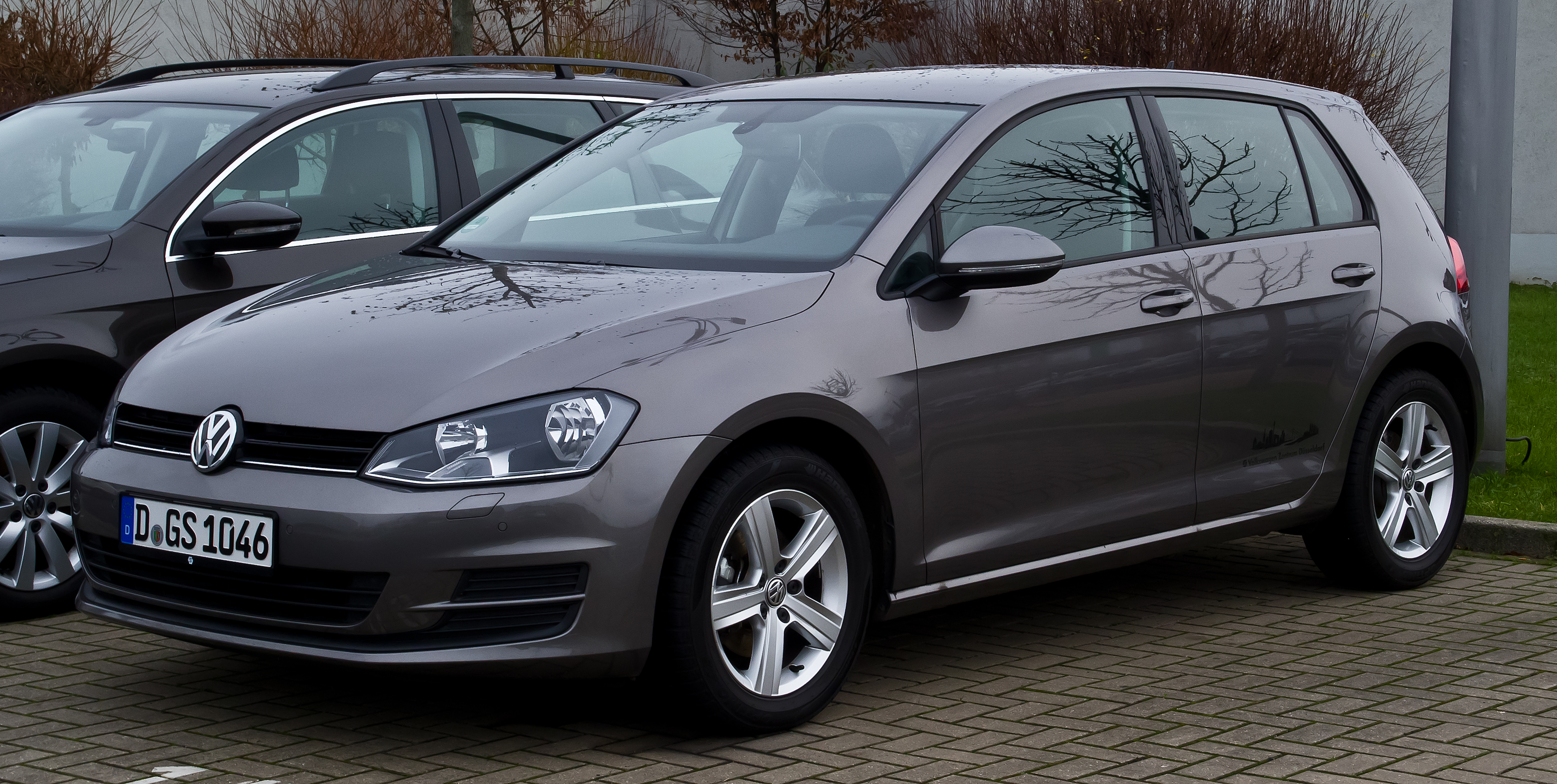 VW Golf 1.2 TSI BlueMotion Technology Comfortline (VII)